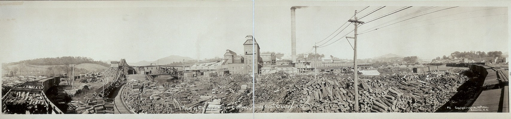 The Champion Fibre Company plant in Canton, North Carolina, USA, viewed from the south side, c. 1910.